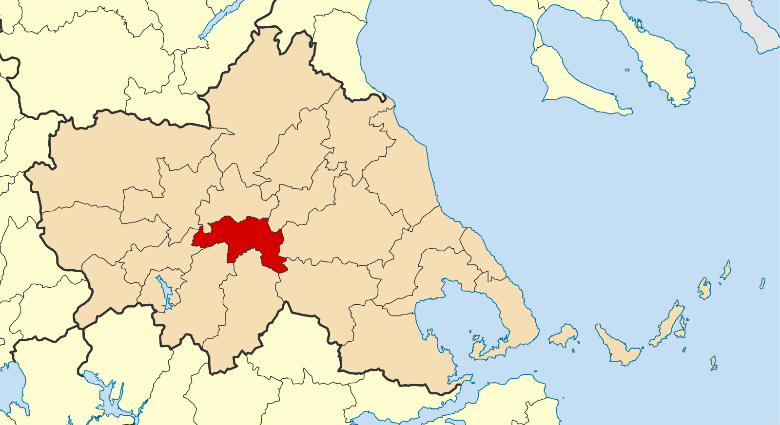 Locator map for Palamas municipality in Greek region Thessaly (2011)